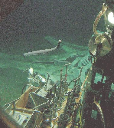 ALVIN's instrument basket at the floor of the Santa Cruz Basin. The skeleton of a gray whale is visible in the background